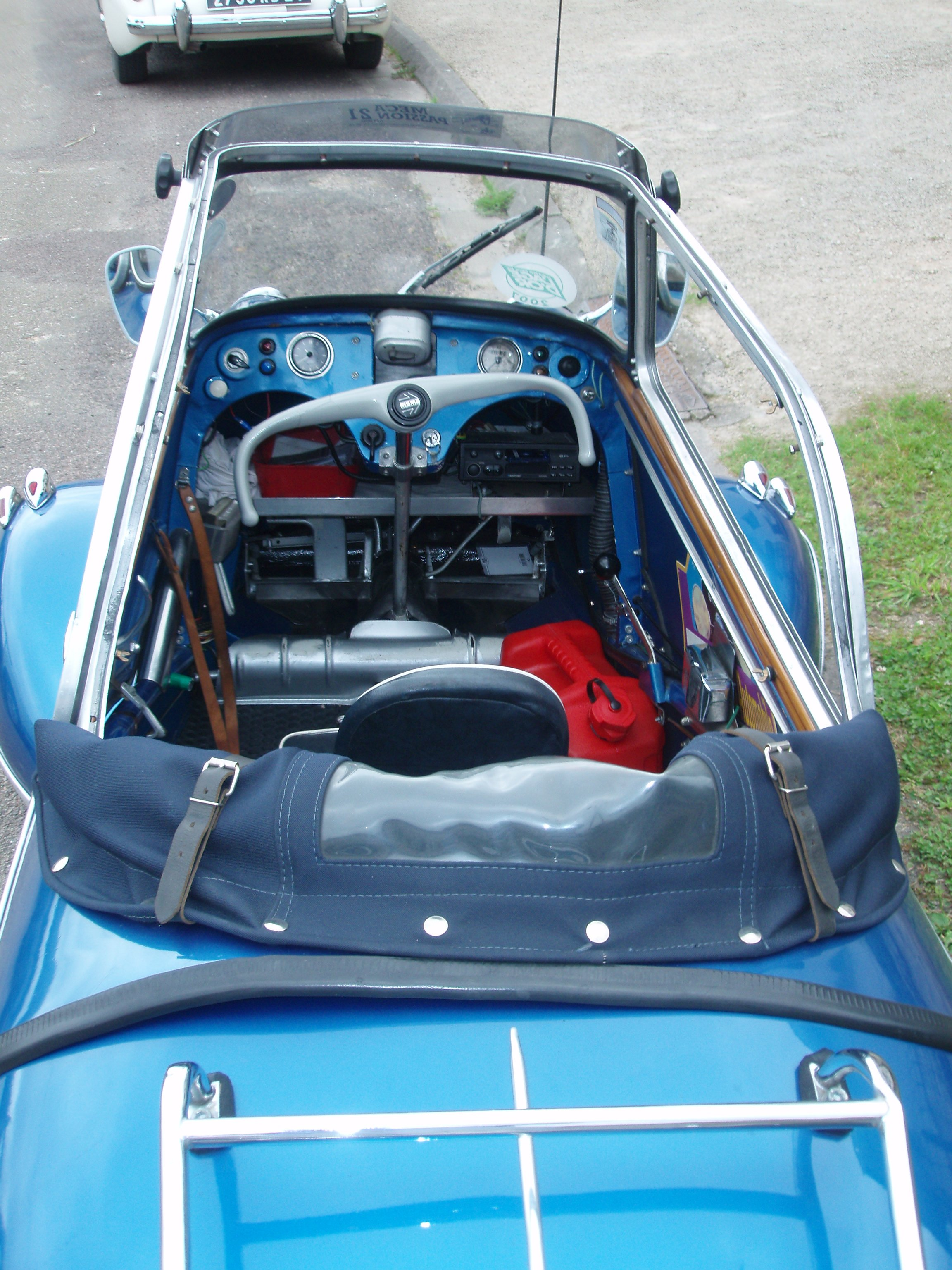 View of the cockpit of a Messerschmitt KR-200 Kabinenroller.